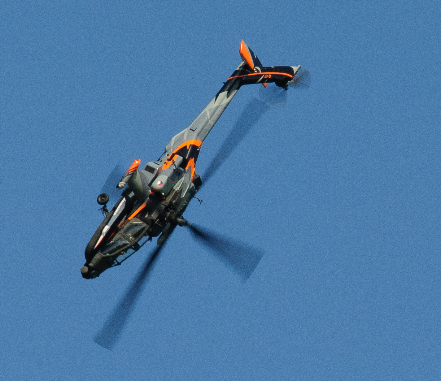 RNLAF Apache Solo Display. Major Roland “Wally” Blankenspoor and Captain Paul ‘Wokkel’ Webbink at the controls.